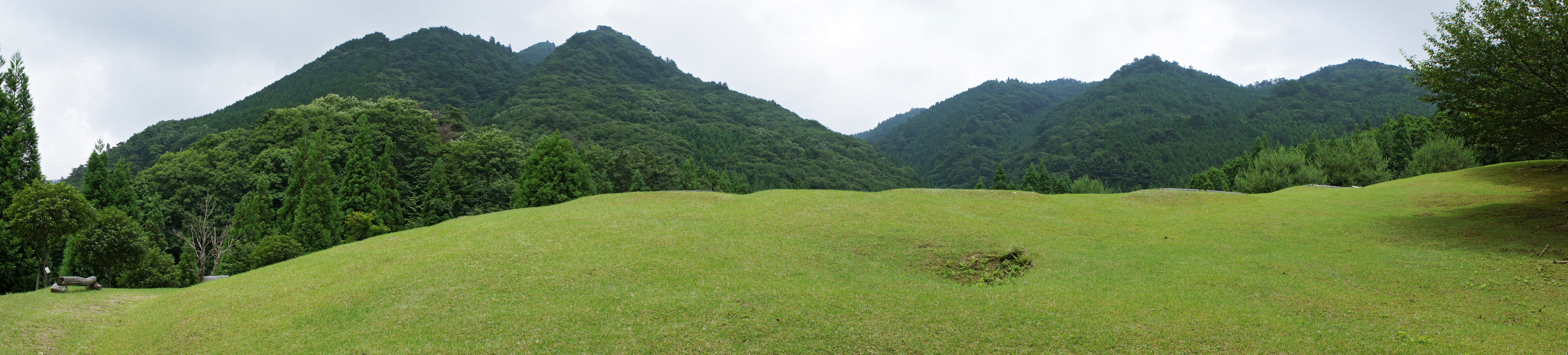 Senjo-daira in Yasutomi Green Station Shikagatsubo, Himeji, Hyogo prefecture, Japan.